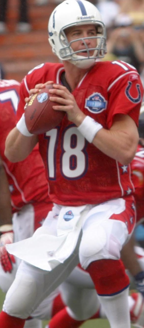 AFC quarterback Peyton Manning, of the Indianapolis Colts, looks down field for a open man. Manning threw three interceptions during the first half of the 2006 Pro Bowl in Hawaii.